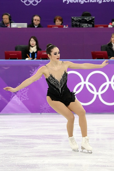 Kaetlyn Osmond at the 2018 Winter Olympics